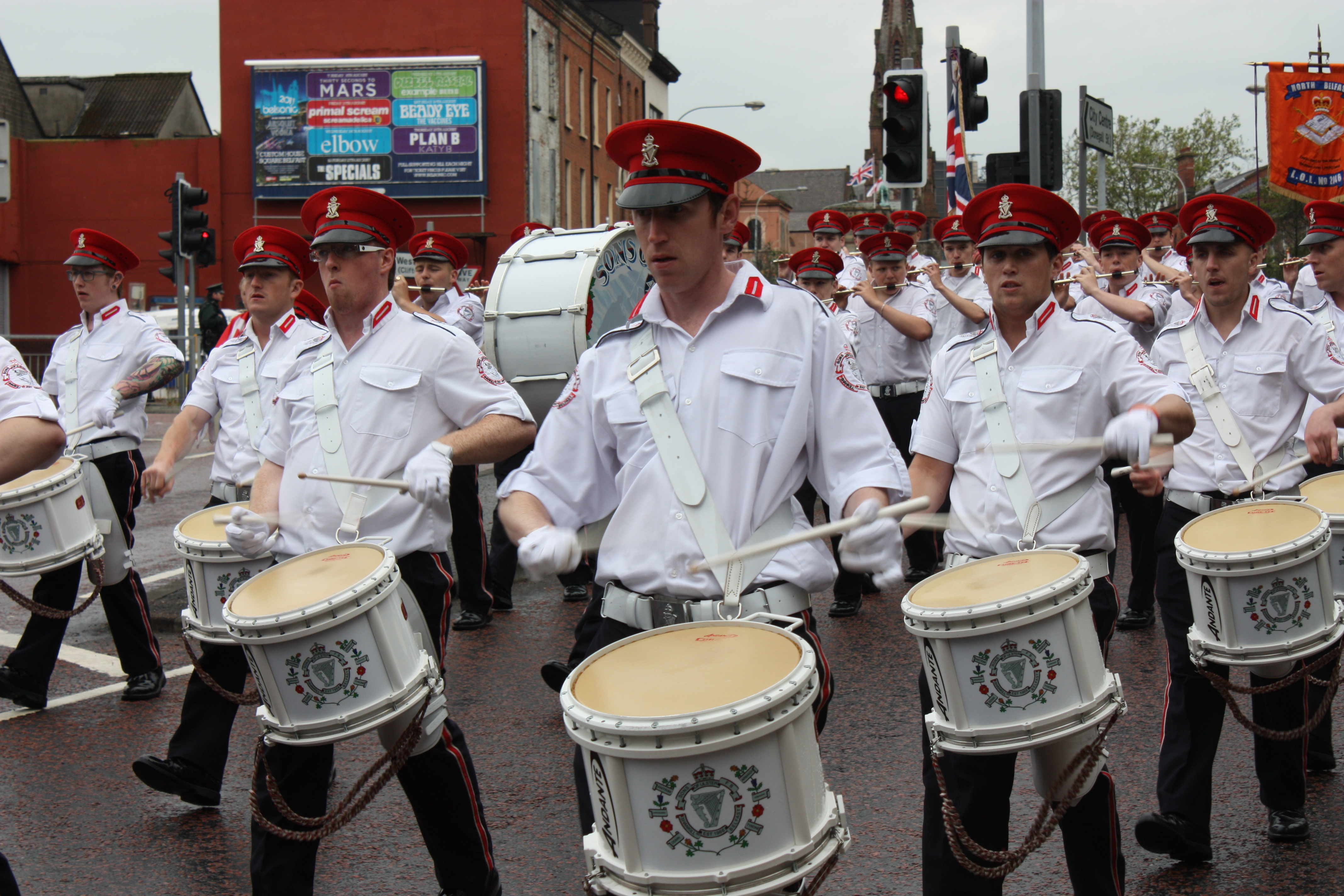 12 July Orange Parades, Donegall Street, Belfast, Northern Ireland, July 2011